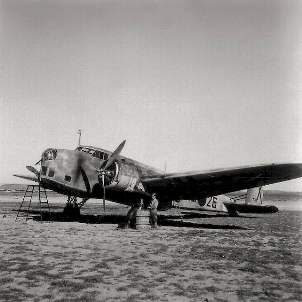 An other nice photo of a Fiat B.R.20 of the "Aviazione Legionaria"